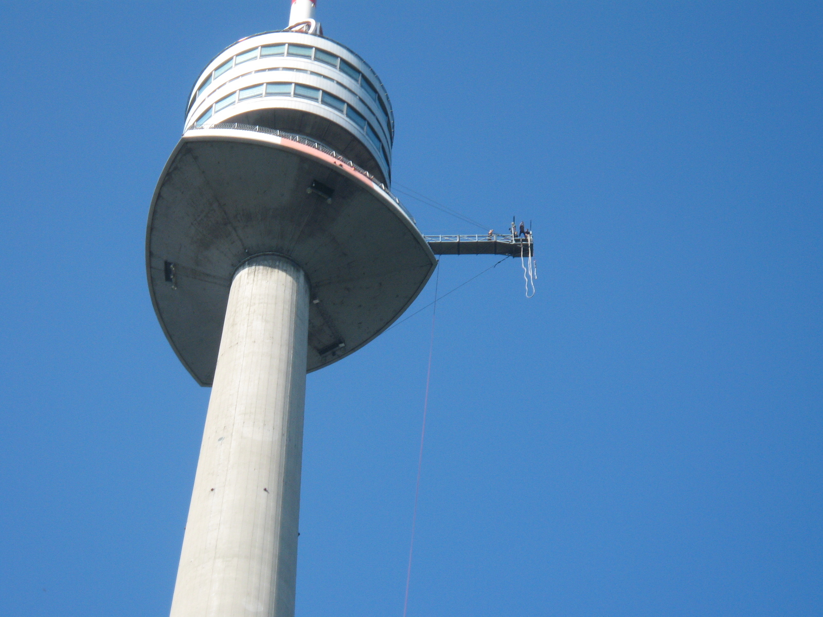 Austria, Vienna, Donauturm